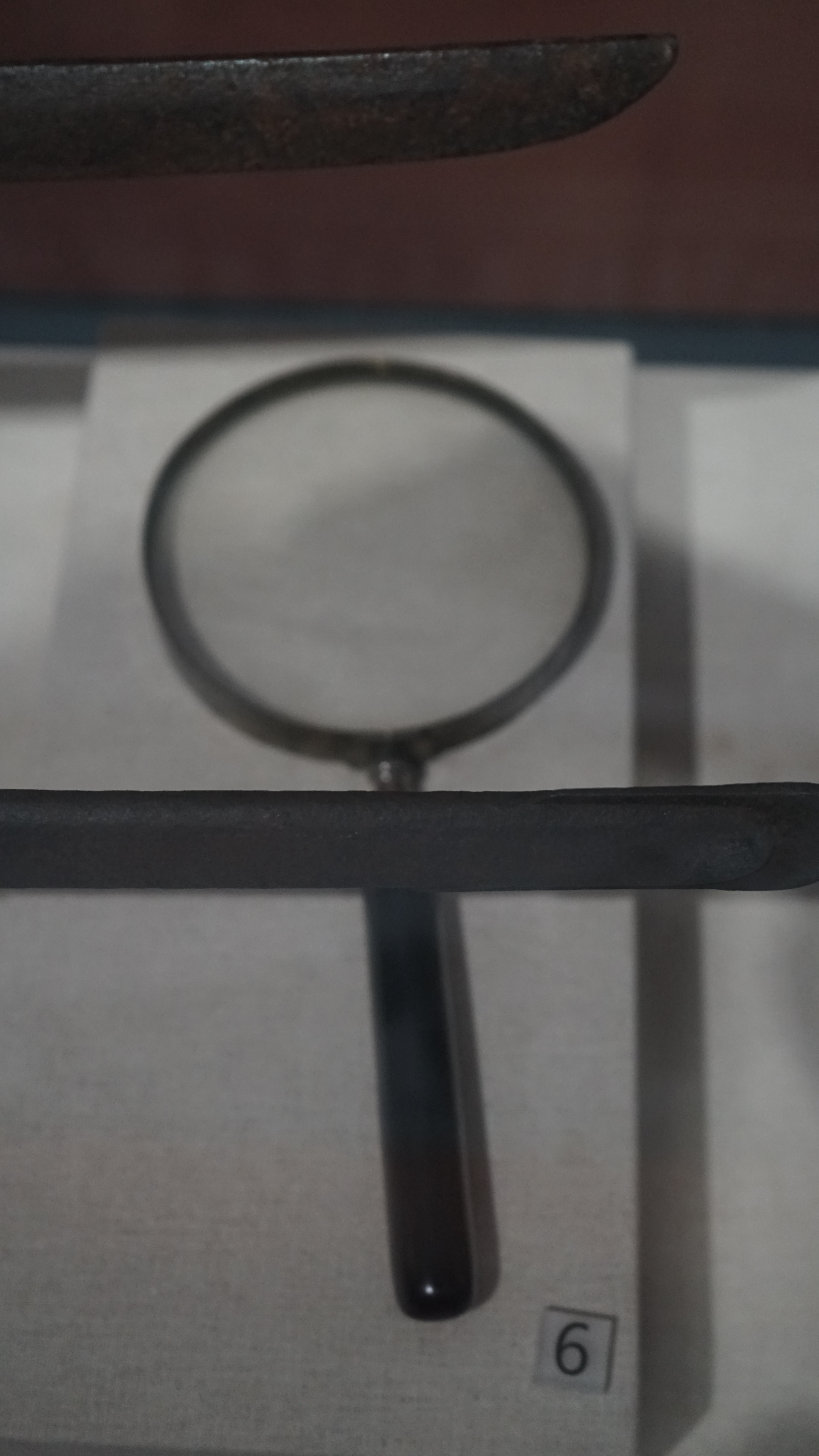 Magnifying glass Cheng Qian used during the Northern Expedition. First Grade Cultural Relic.